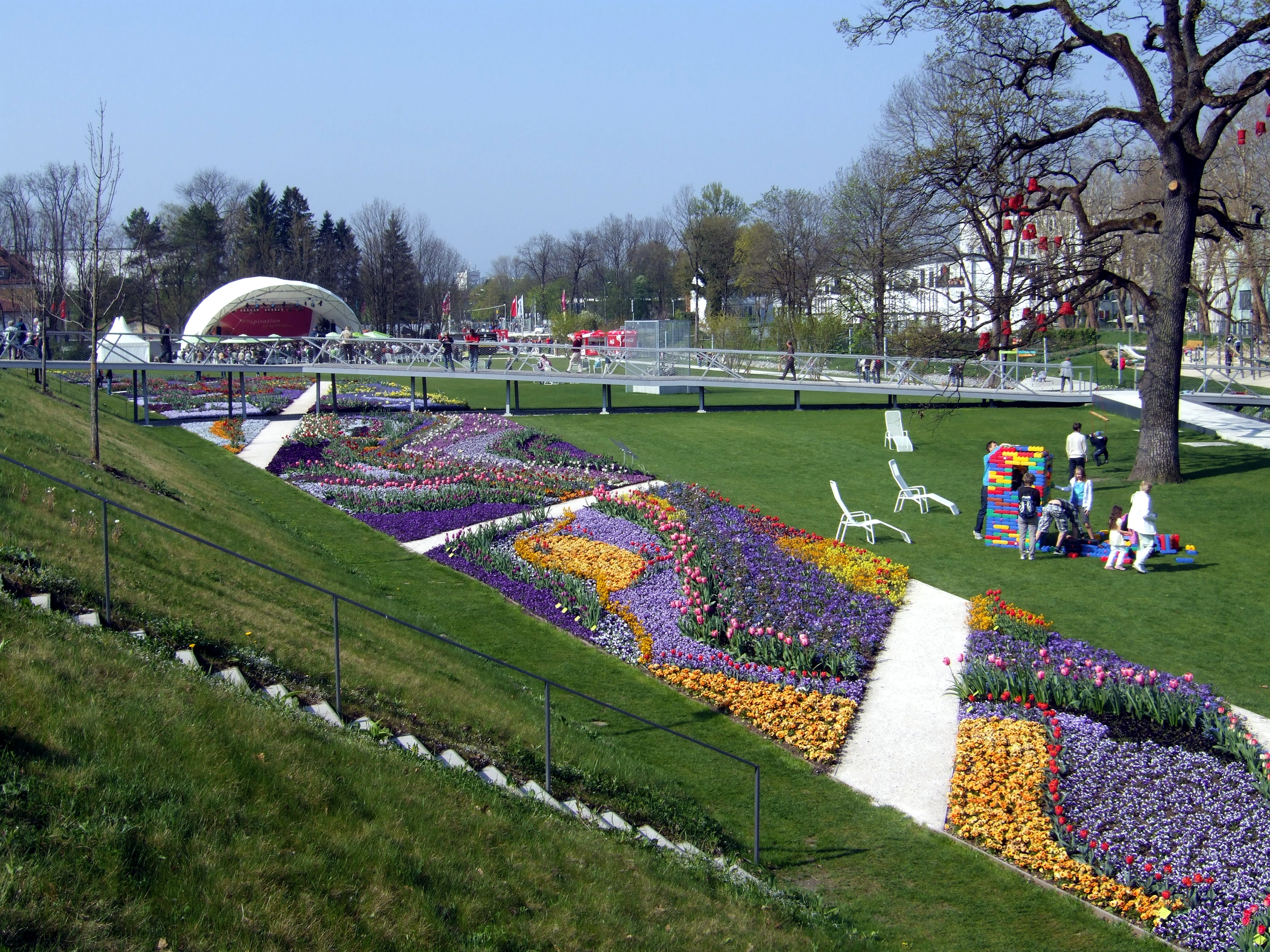 Bavarian horticultural exhibition 2010 in Rosenheim: Mangfallpark Süd